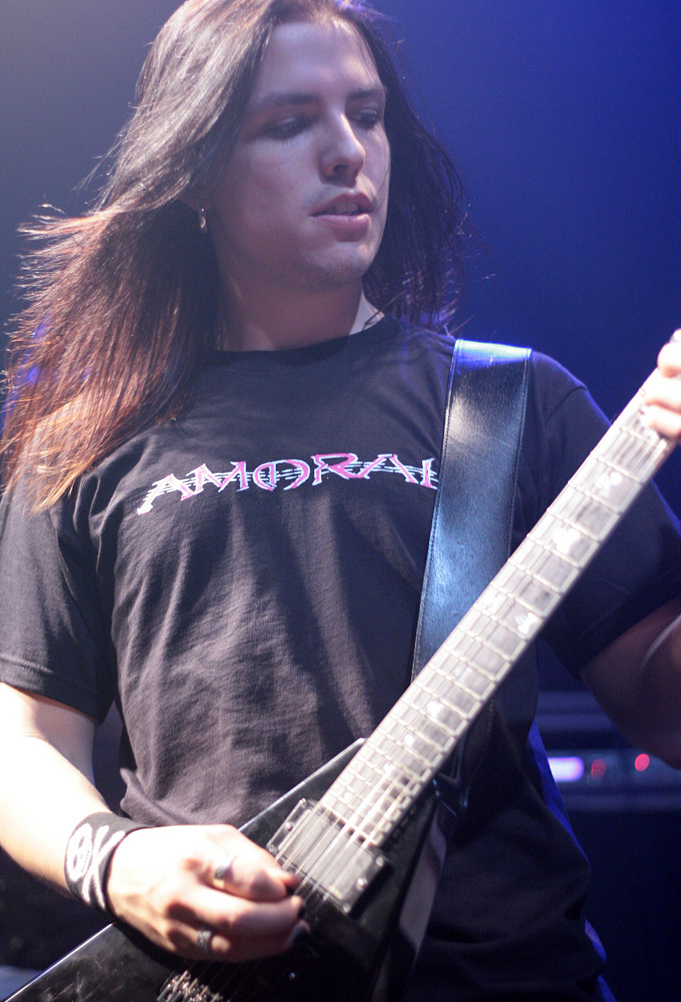 Taken @ Norther show (10/17/2007) Camera: Canon EOS 400D DIGITAL size: 656kb